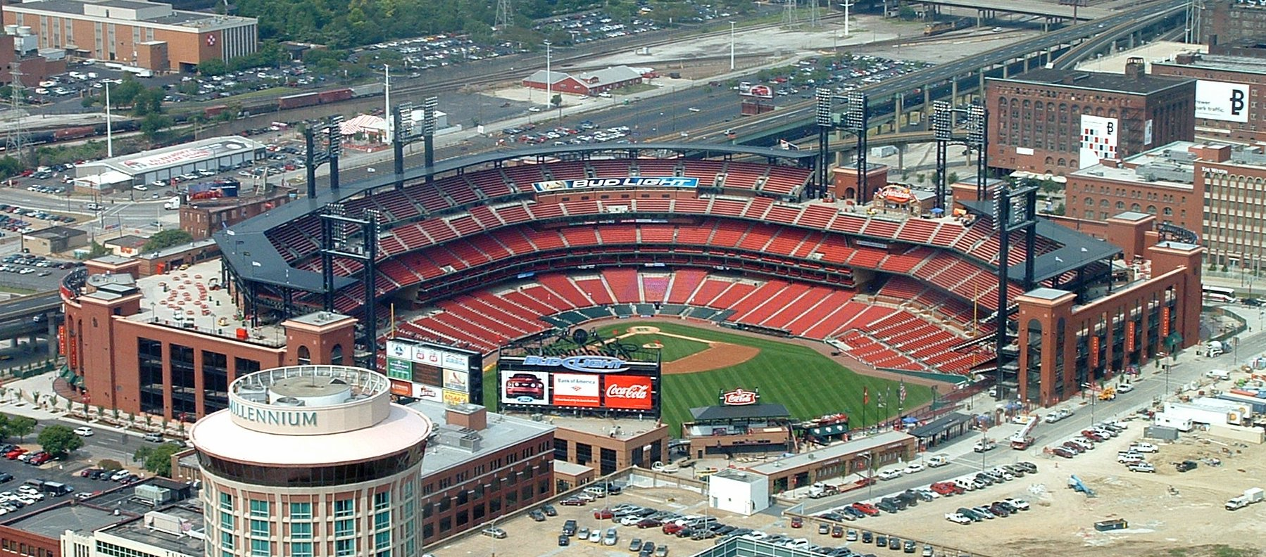 Busch Stadium. Photographed June 15, 2006 from the Jefferson National Expansion Memorial, St. Louis, Missouri.